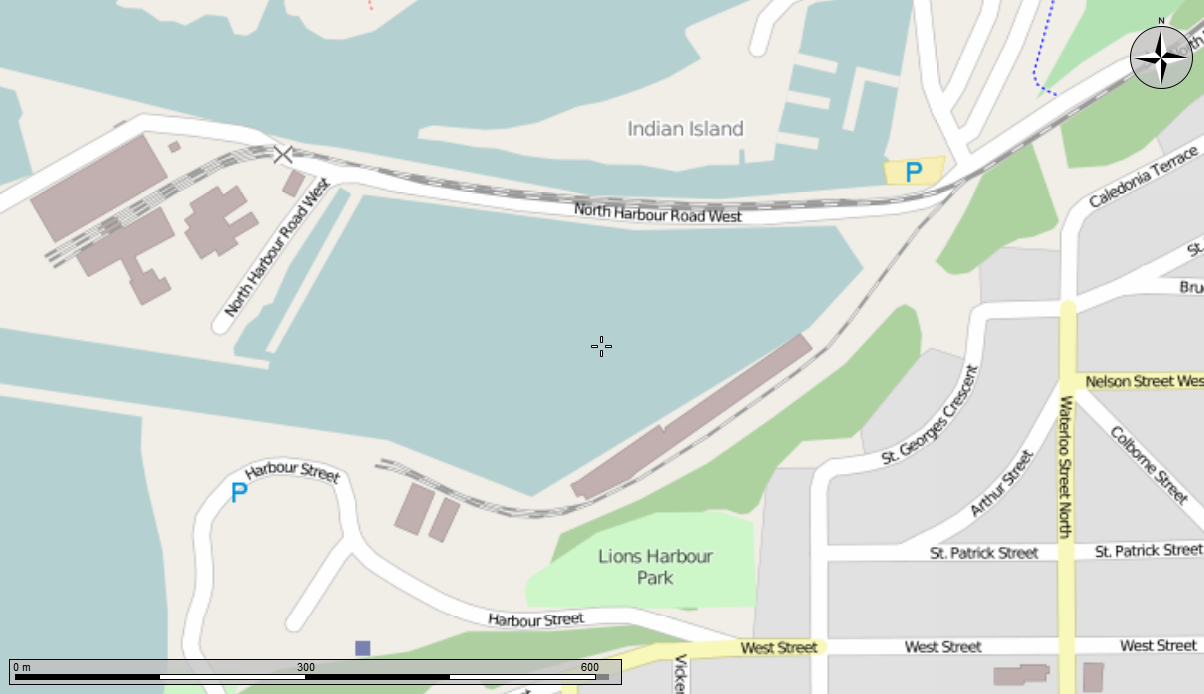 Map showing Goderich Harbour, and the location of the former CPR Station, which was along the lower rail line seen.